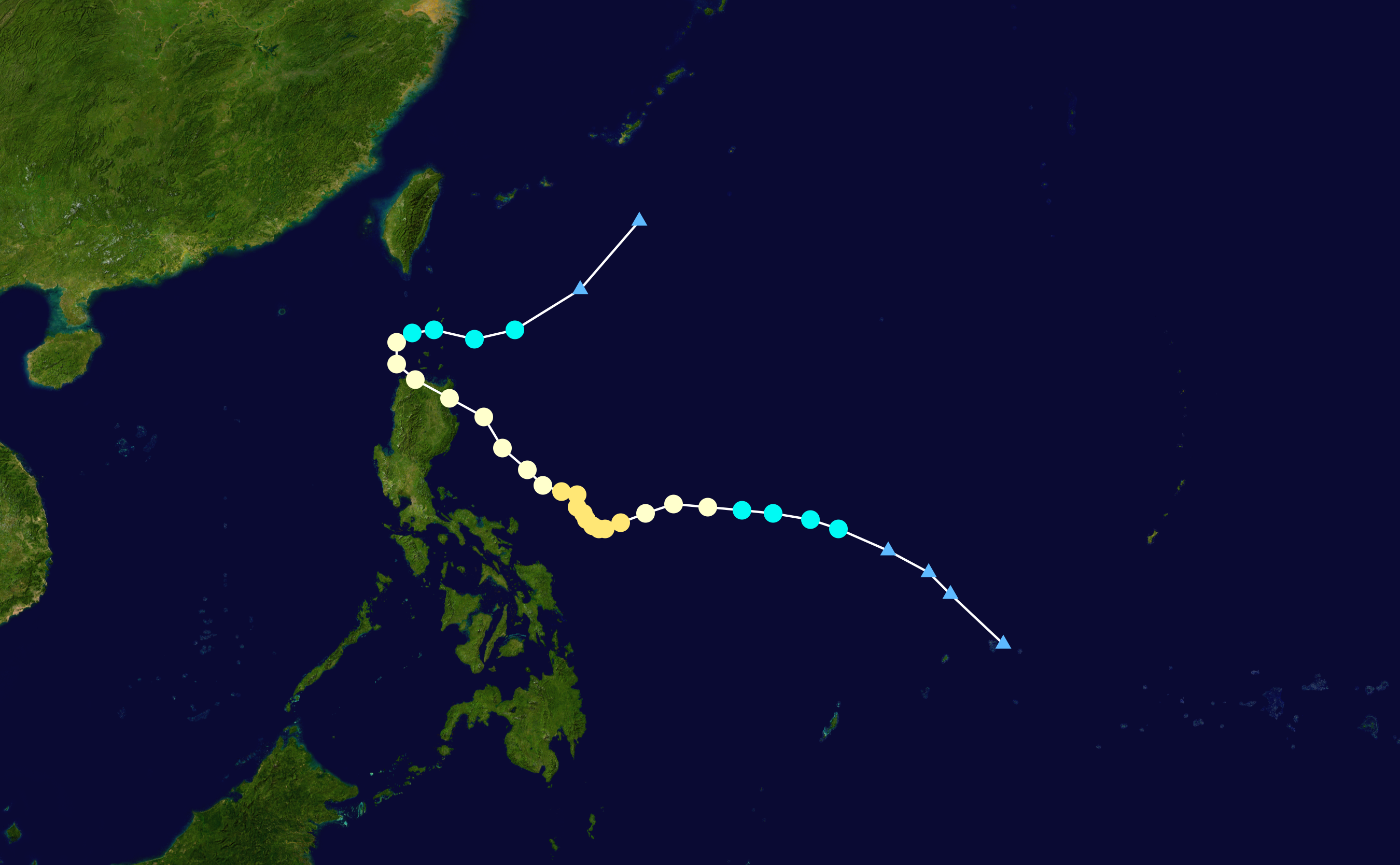 Typhoon Mitag track. Uses the color scheme from the Saffir-Simpson Hurricane Scale.